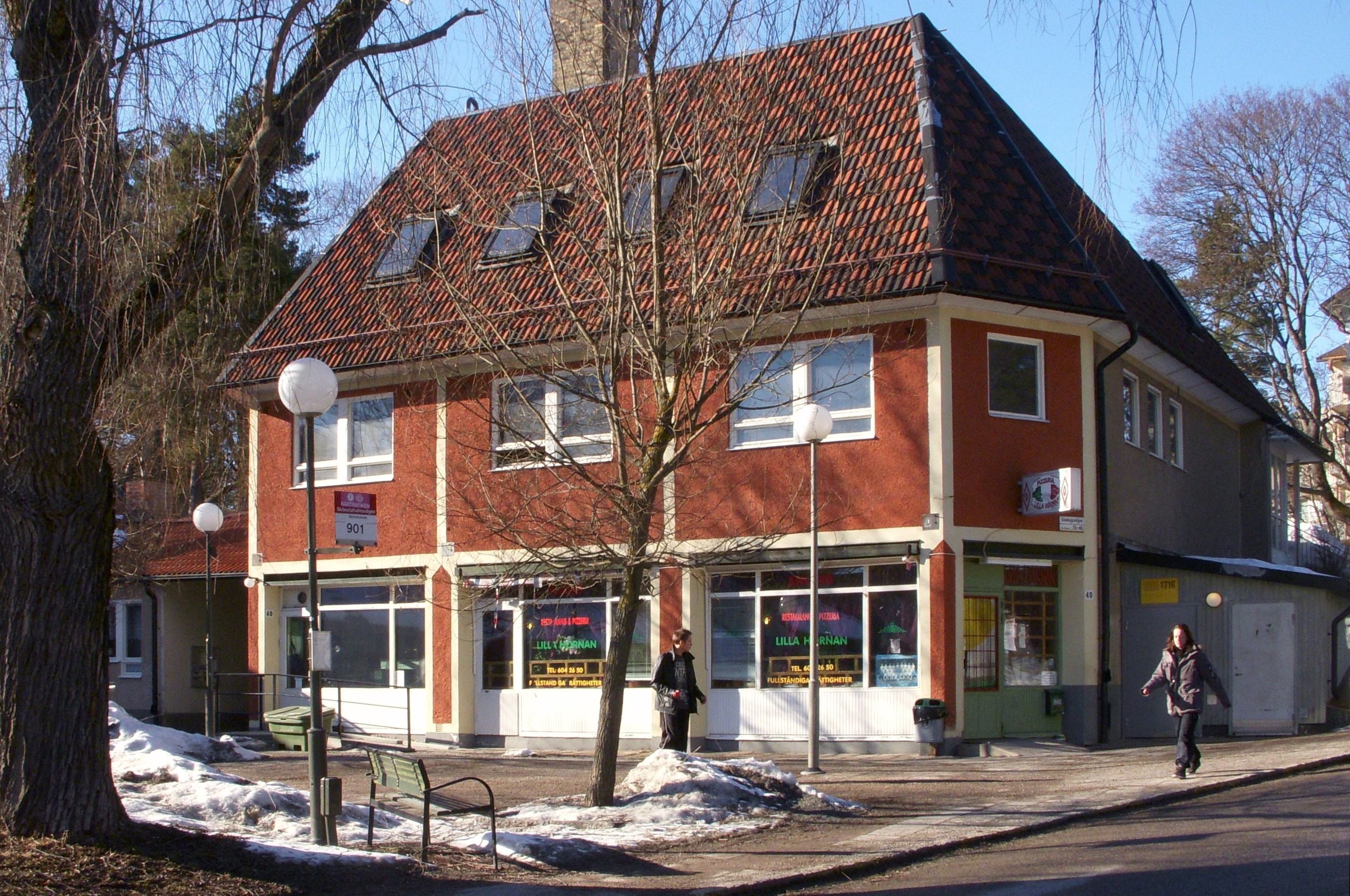 Skönstaholm, Hökarängen, Stockholm